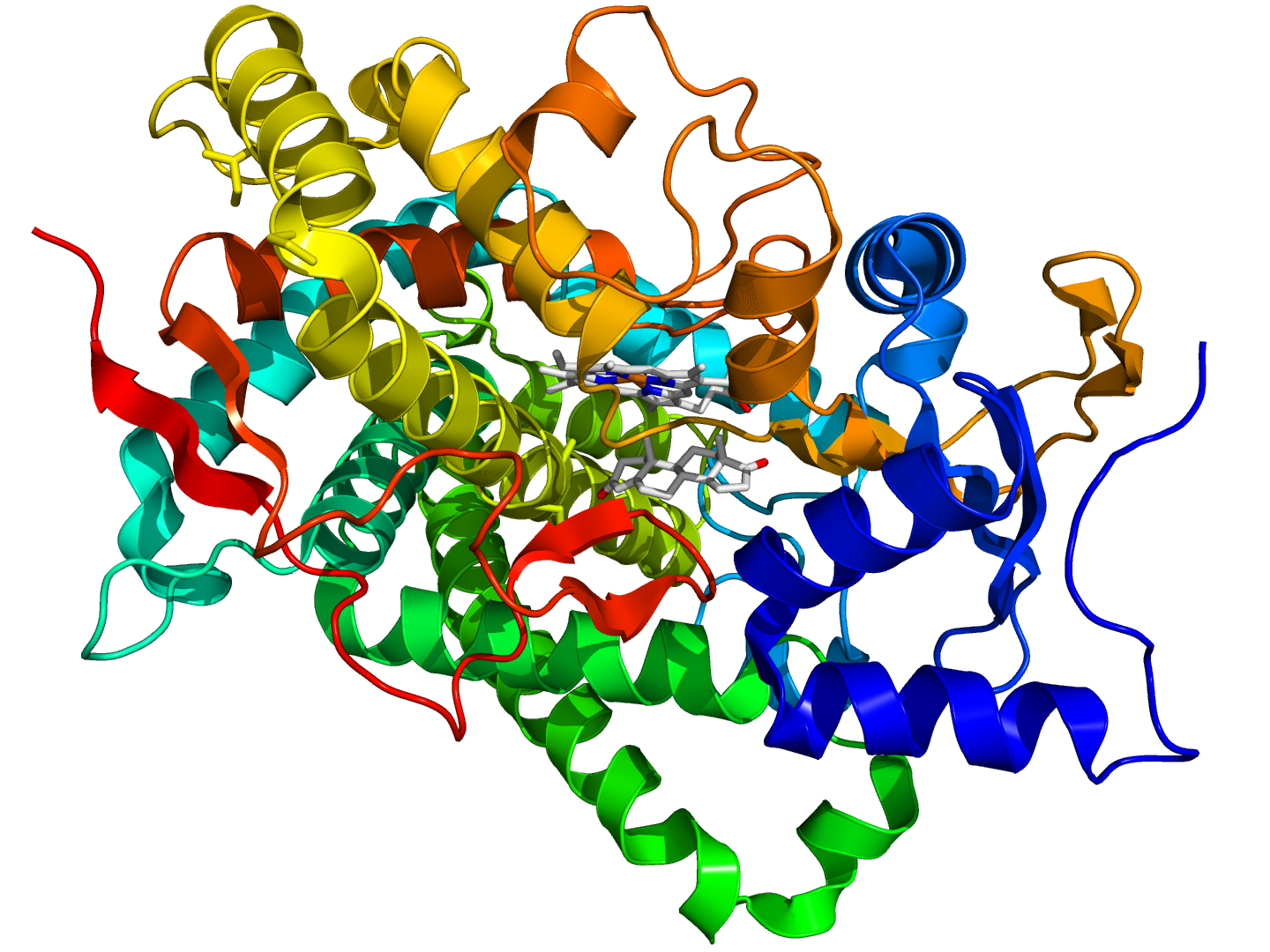 Crystallographic structure of the human placental aromatase cytochrome P450 (rainbow colored cartoon diagram N-terminus = blue, C-terminus = red) in complex with the cofactor protoporphyrin IX (top) and the substrate androstenedione (bottom) (carbon = white, oxygen = red, nitrogen = blue, iron = orange).[1] ↑ PDB: 3EQM​; Ghosh D, Griswold J, Erman M, Pangborn W (January 2009). "Structural basis for androgen specificity and oestrogen synthesis in human aromatase". Nature 457 (7226): 219–23. PMID 19129847.